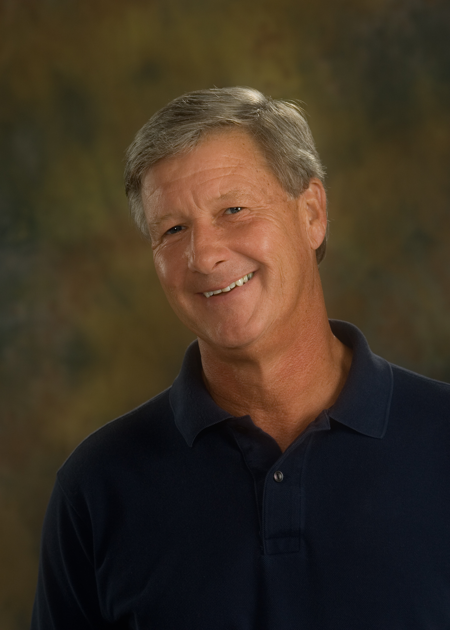 Hi-res headshot of author Mark Ethridge